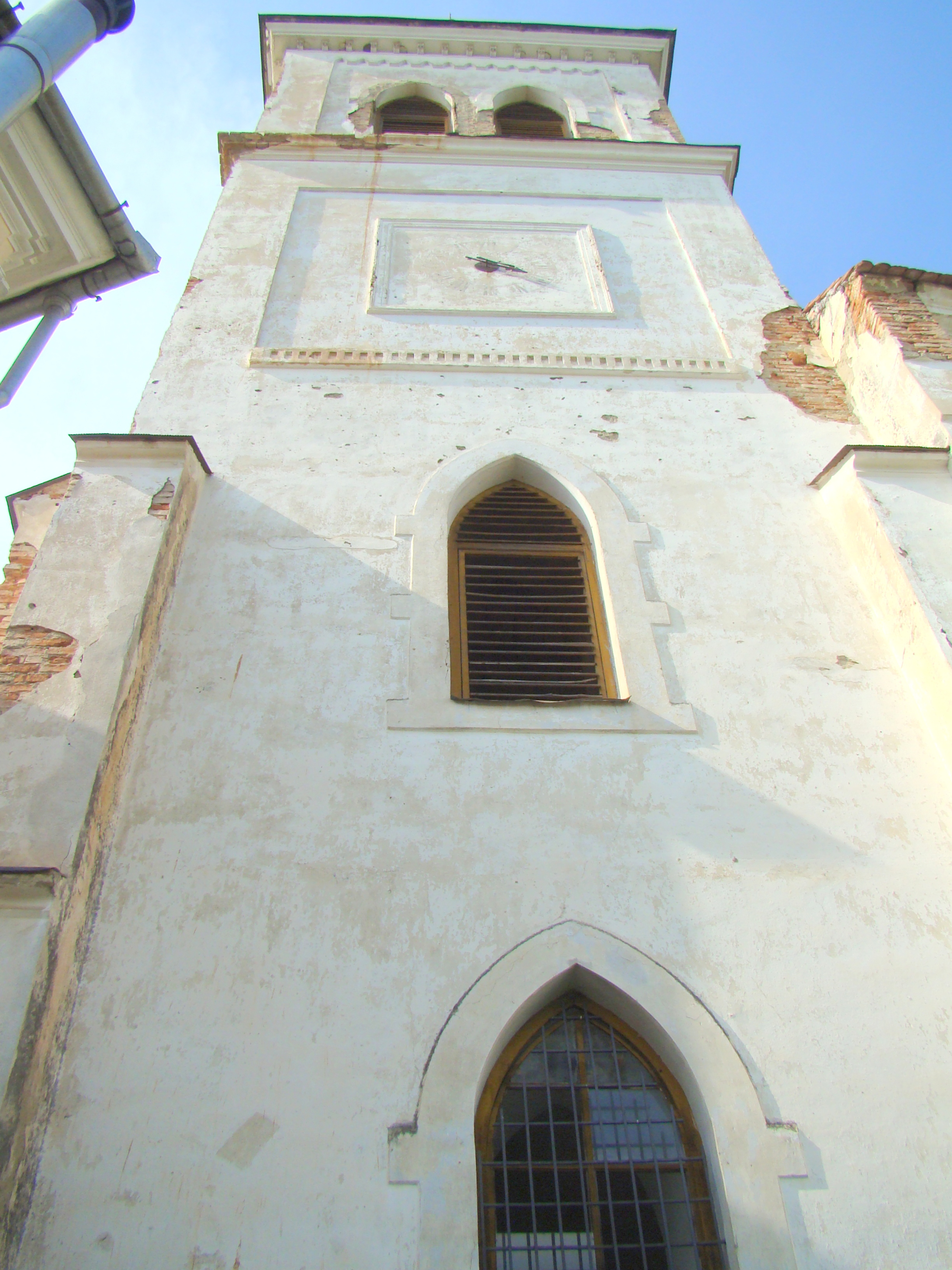 Lutheran church in Beia, Braşov county, Romania